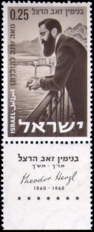 Israeli postage stamp issued toward 100th anniversary of Dr. Theodor Herzl - 0.25 Israeli lira